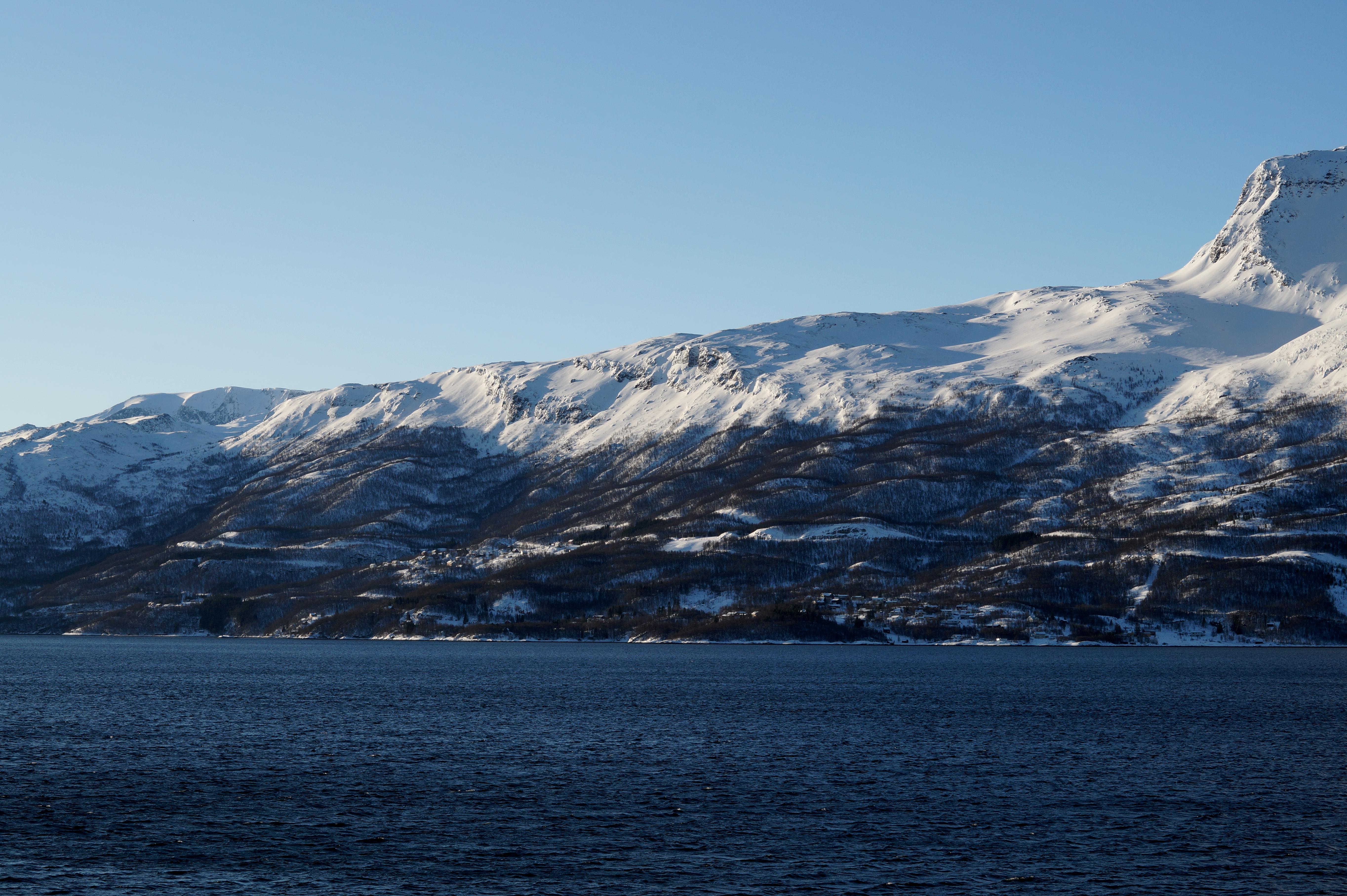 Straumsnes i Rombaken ved Narvik